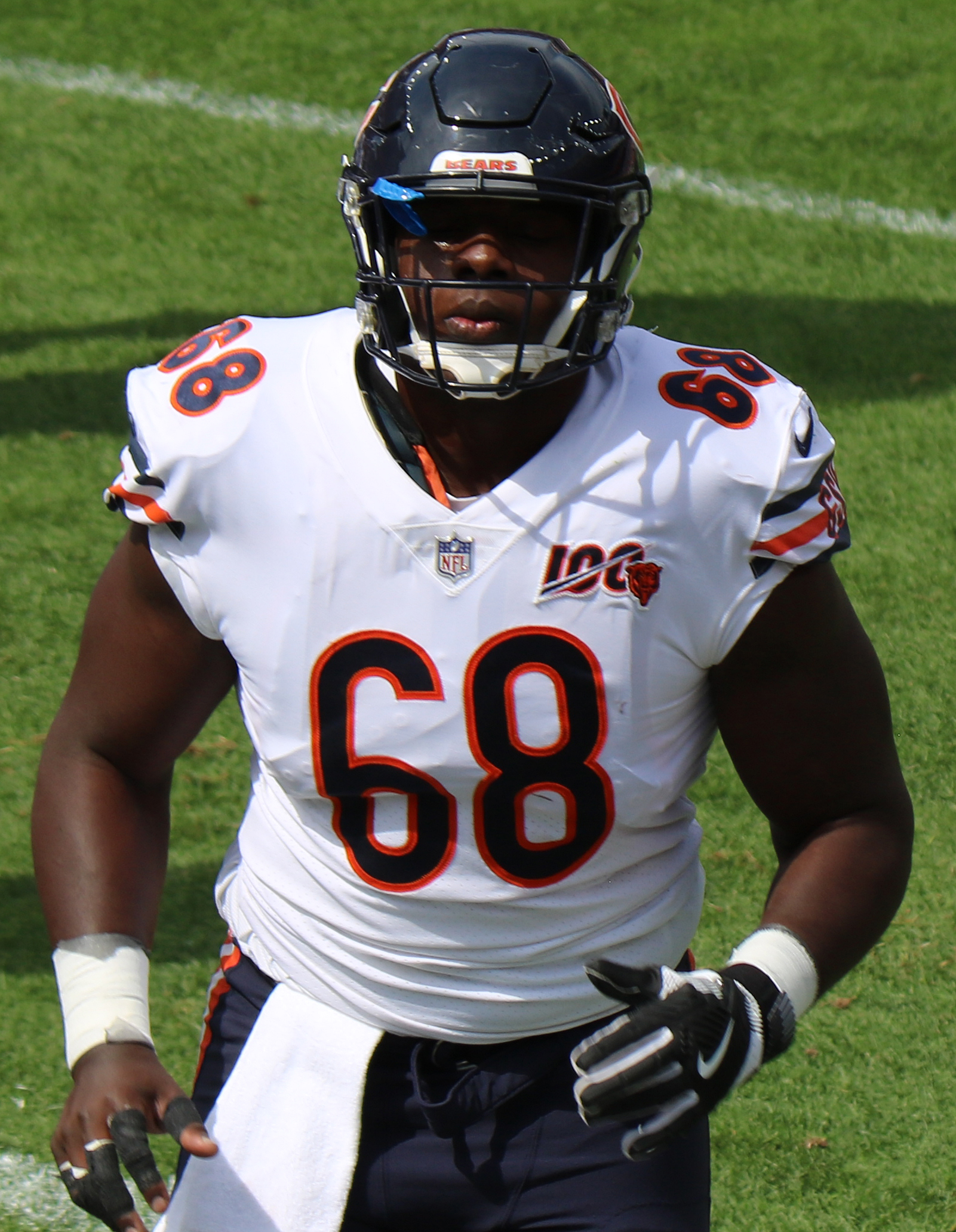 James Daniels, a National Football League player.